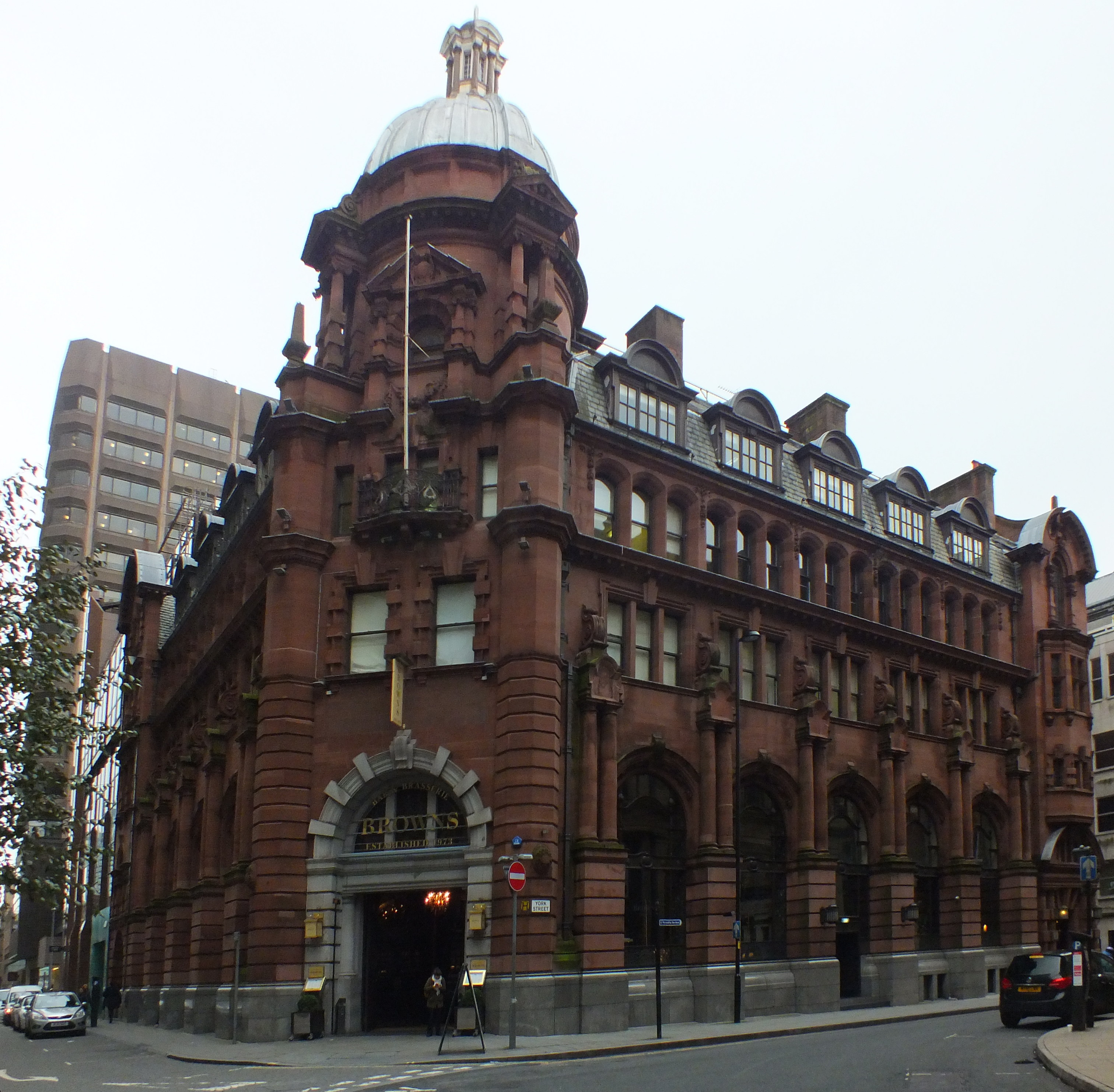 Spring Gardens, Central Manchester cotton warehouses-mixed with commercial buildings and later banks. Charles Heathcote's 1902 Parr's Bank- now occupied by Brown's pub/restaurant.